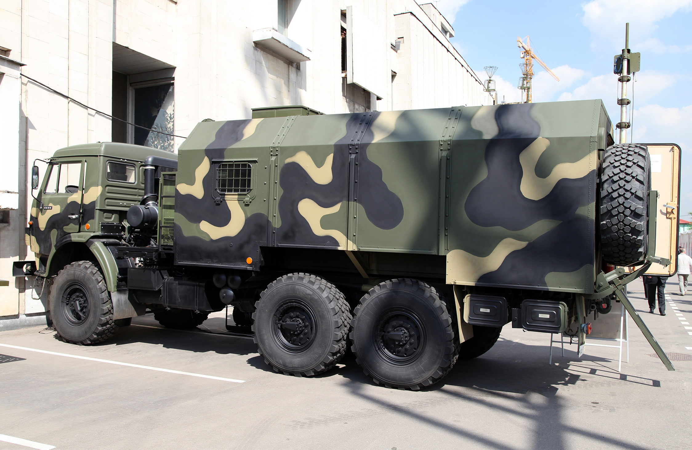 Russian Command vehicle (MSh) for military district level command post «MSh-12 Svetlitsa».